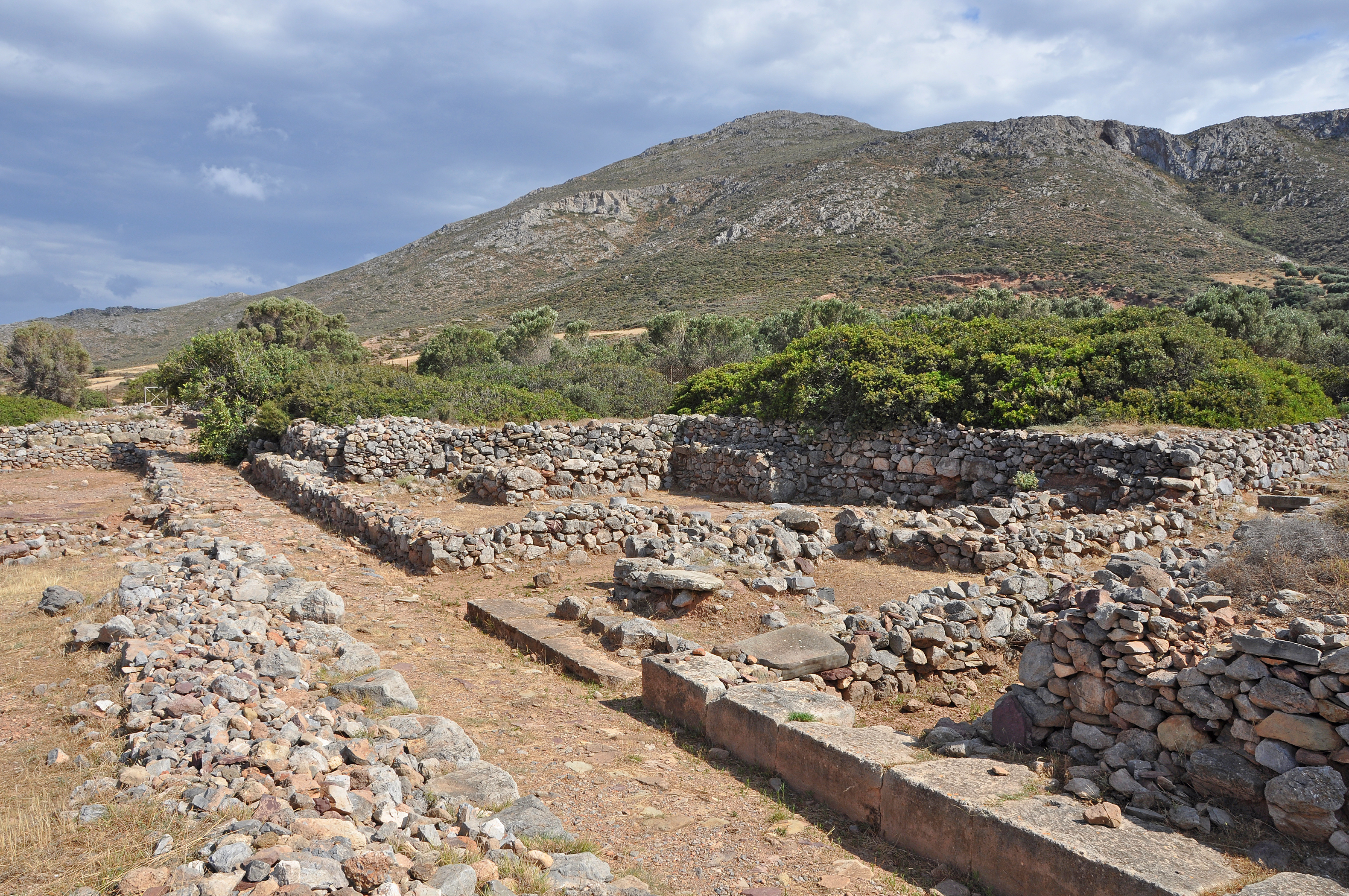 Palekastro (Crete, Greece): the Minoan site of Roussolakkos